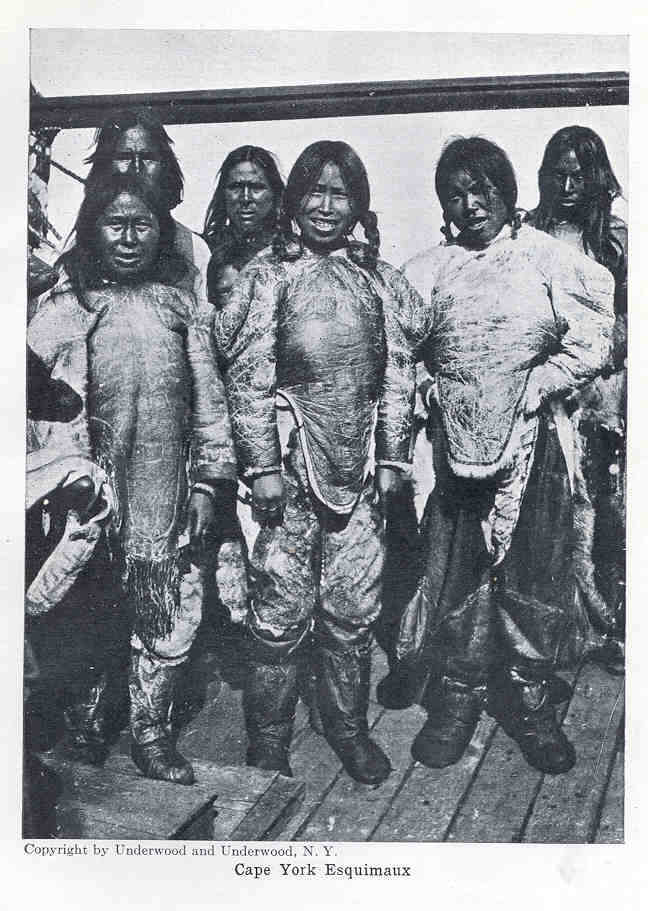 Cape York Esquimaux Subject: Inuit, Polar eskimos Geographic Subject: Greenland--Cape York Tag: Traditional Fisheries